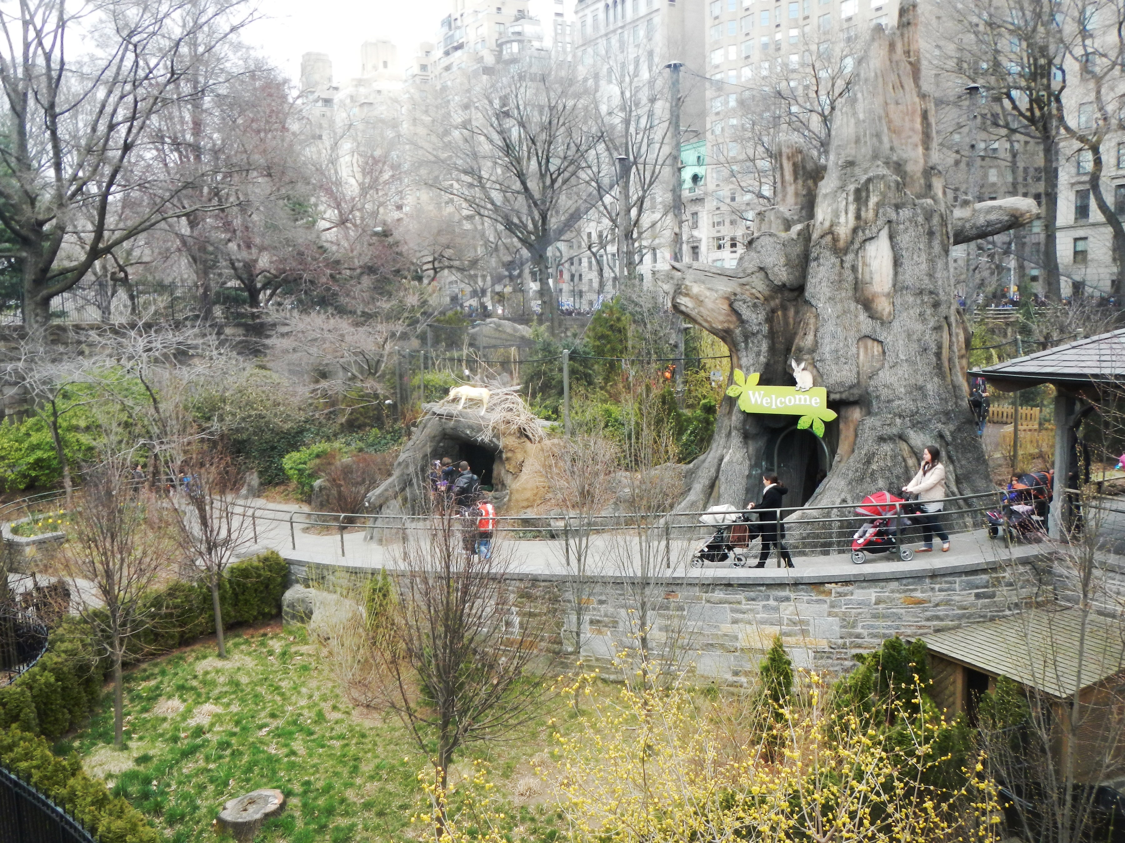 Looking north at Childrens Zoo on a cloudy afternoon.